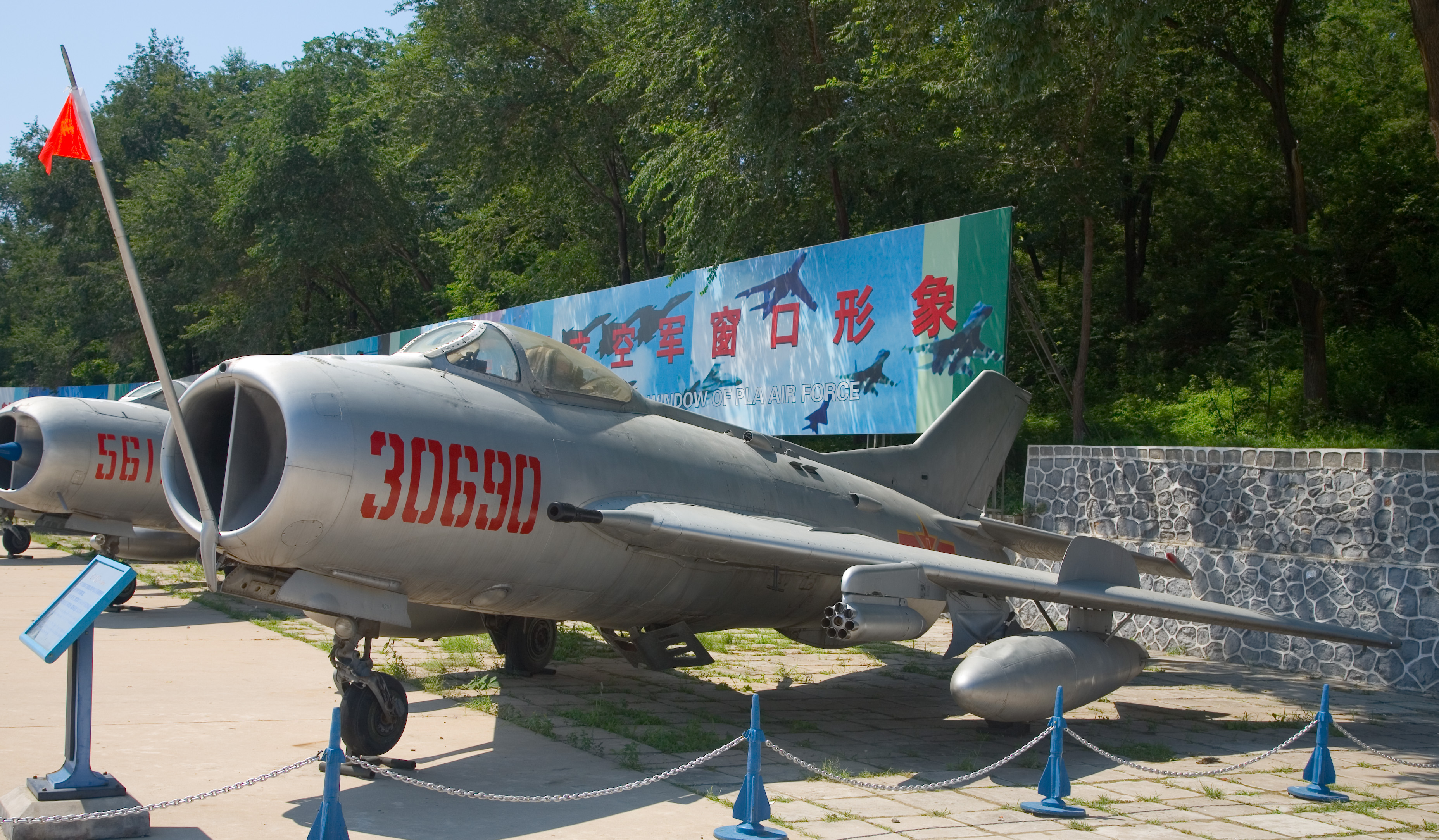 A F-6 fighter at the China Aviation Museum outside Beijing